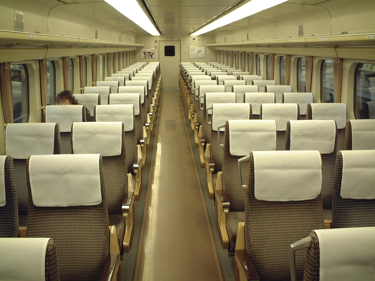 Interior of JR East 200 series shinkansen F set standard-class car, taken at Niigata Station